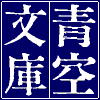 Logo of the Aozora Bunko Library (open air library)[1]